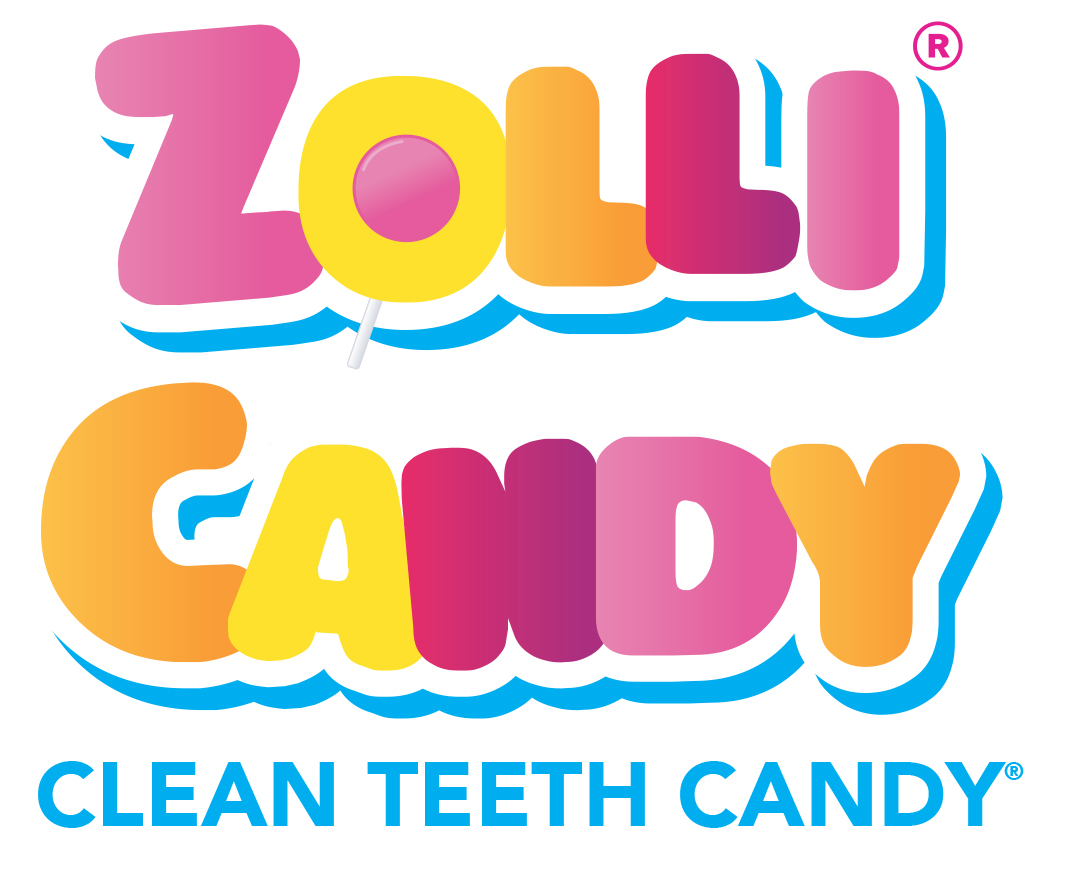 Logo for Zolli Candy, Clean Teeth Candy